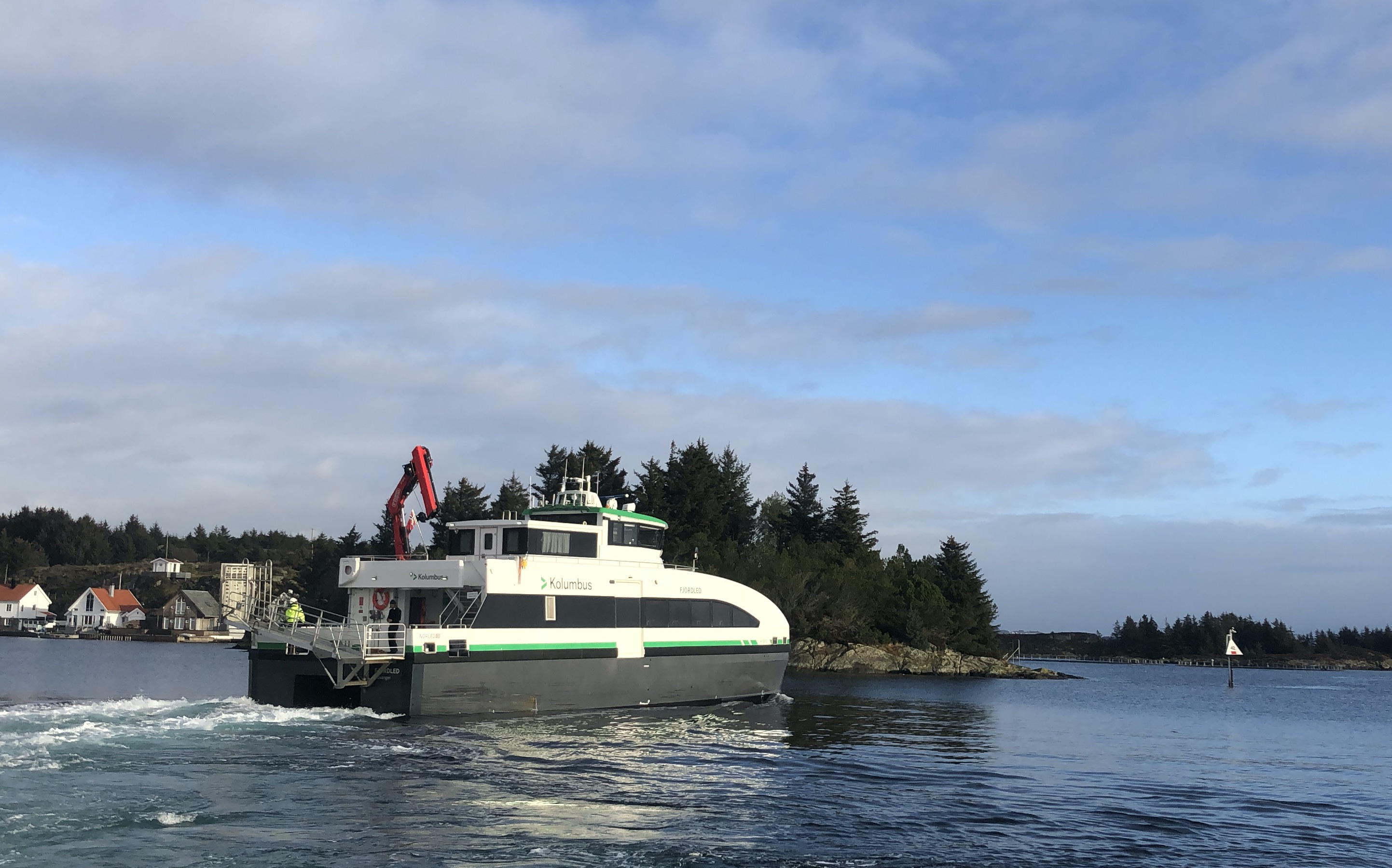 Fjordled outside the island of Feøy. Just after departing the small harbour at the small grocery store on the island.